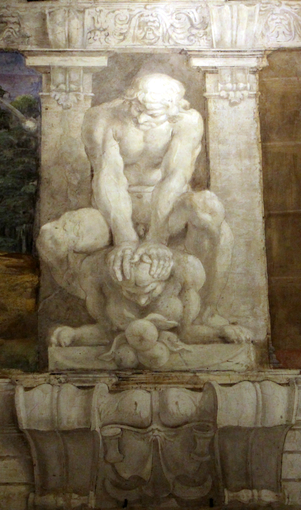 Frieze of Aeneas by the Carracci family, detail